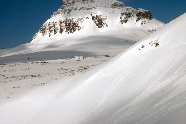 The Big Drift is a seasonal snow accumulation that occurs along the Going-to-the-Sun Road in Glacier National Park. The snowdrift can accumulate over 30 meters/100 feet deep and is located immediately east of the Continental Divide.